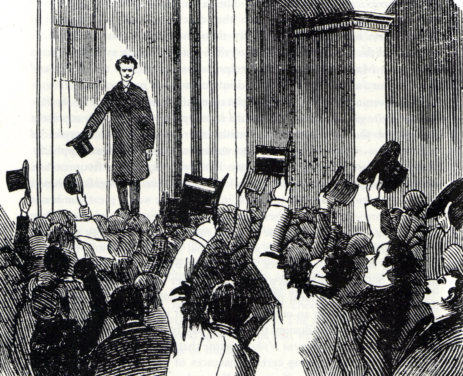 Illustration from a contemporary Swedish newspaper depicting August Strindberg's reception on returning to Stockholm on 20th October 1884. Illustration was accompanied by a caption that reads "Jag kommer hem!"